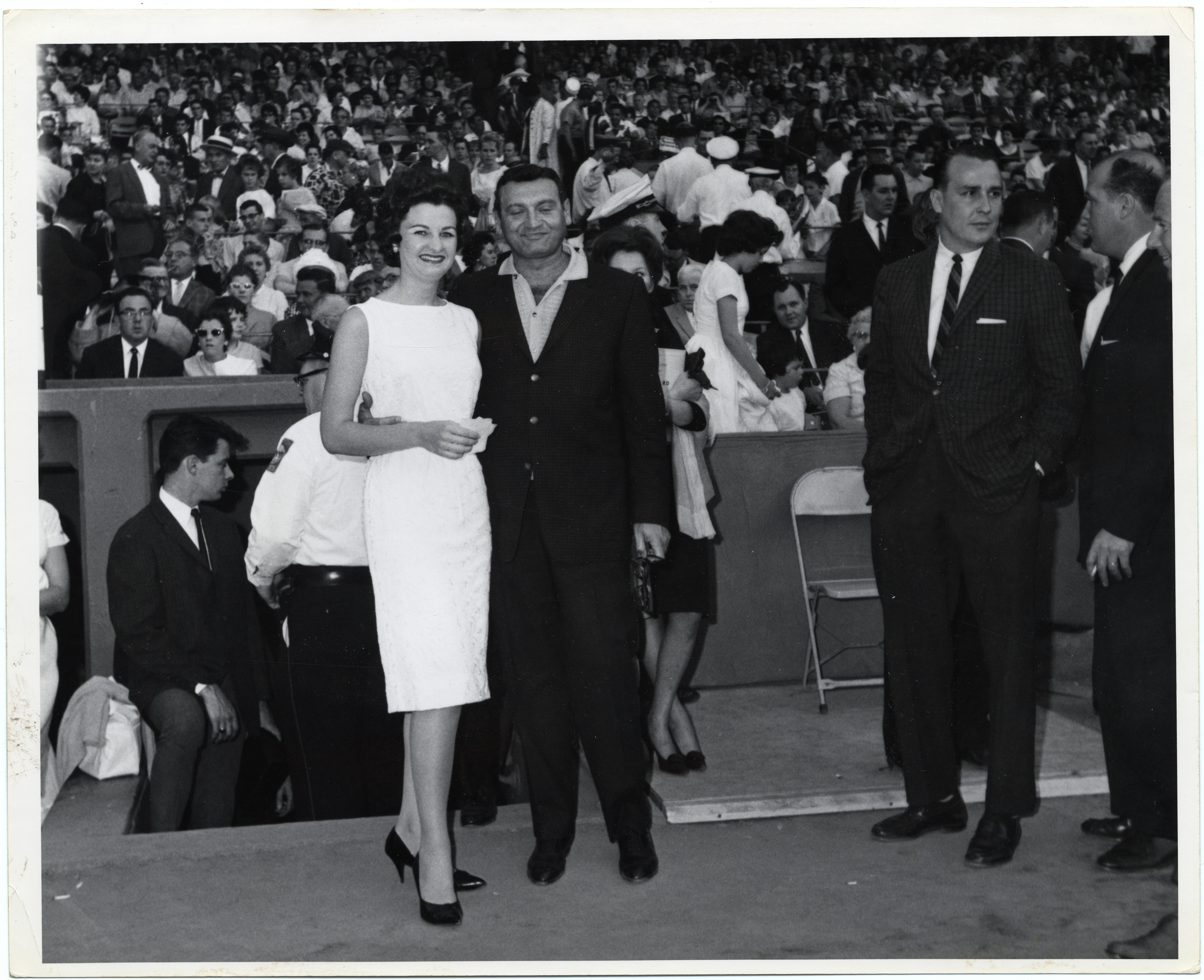 Title: An unidentified woman and Frankie Laine, singer, songwriter, and actor Creator: A. Zambella Date: circa 1960-1968 Source: Mayor John F. Collins records, Collection #0244.001 File name: 244001_1030 Rights: Copyright status not evaluated Citation: Mayor John F. Collins records, Collection #0244.001, City of Boston Archives, Boston